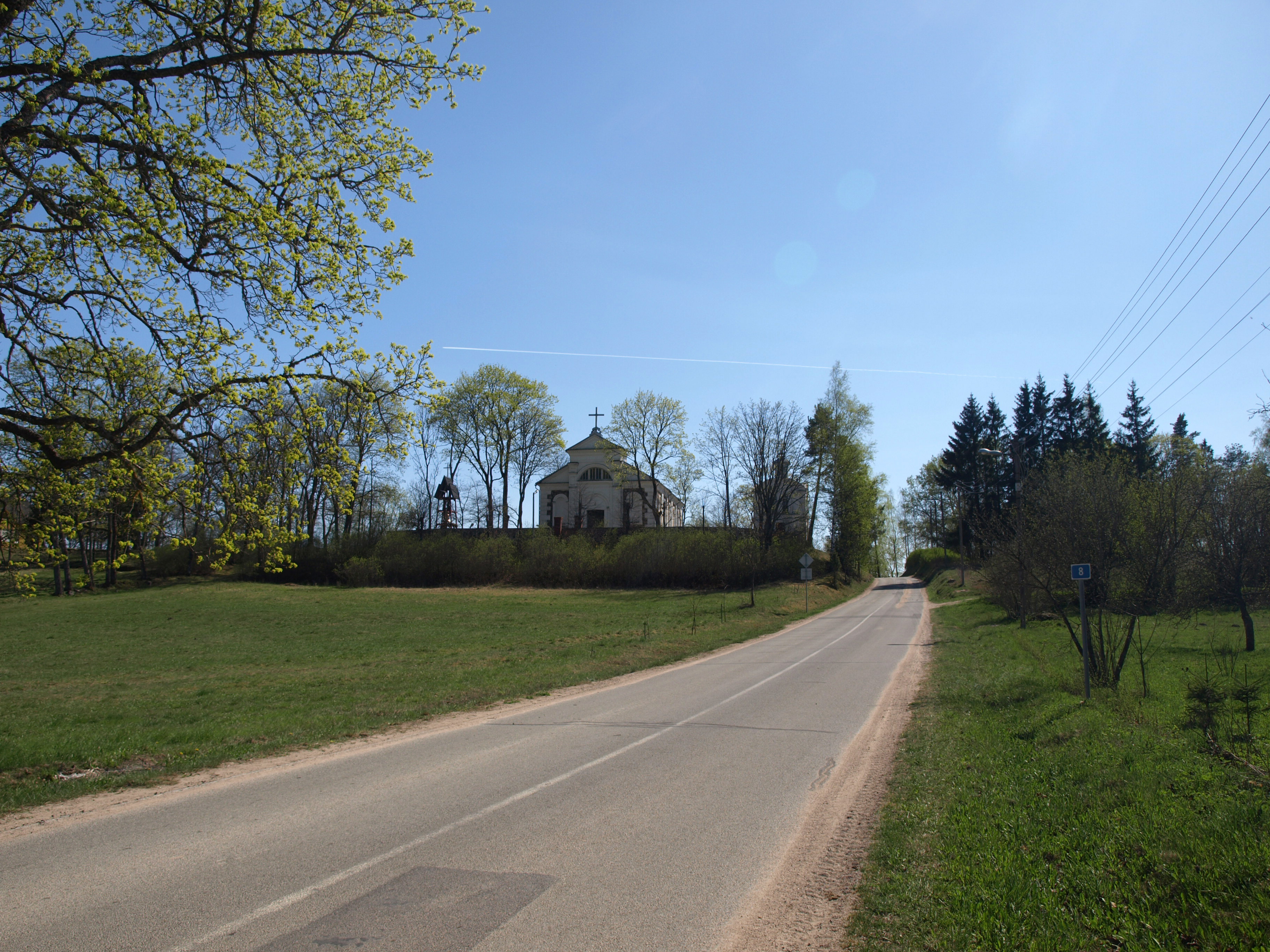 Naujas Strūnaitis, Švenčionys district, Lithuania